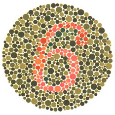 Ishihara colourblindness test No 3